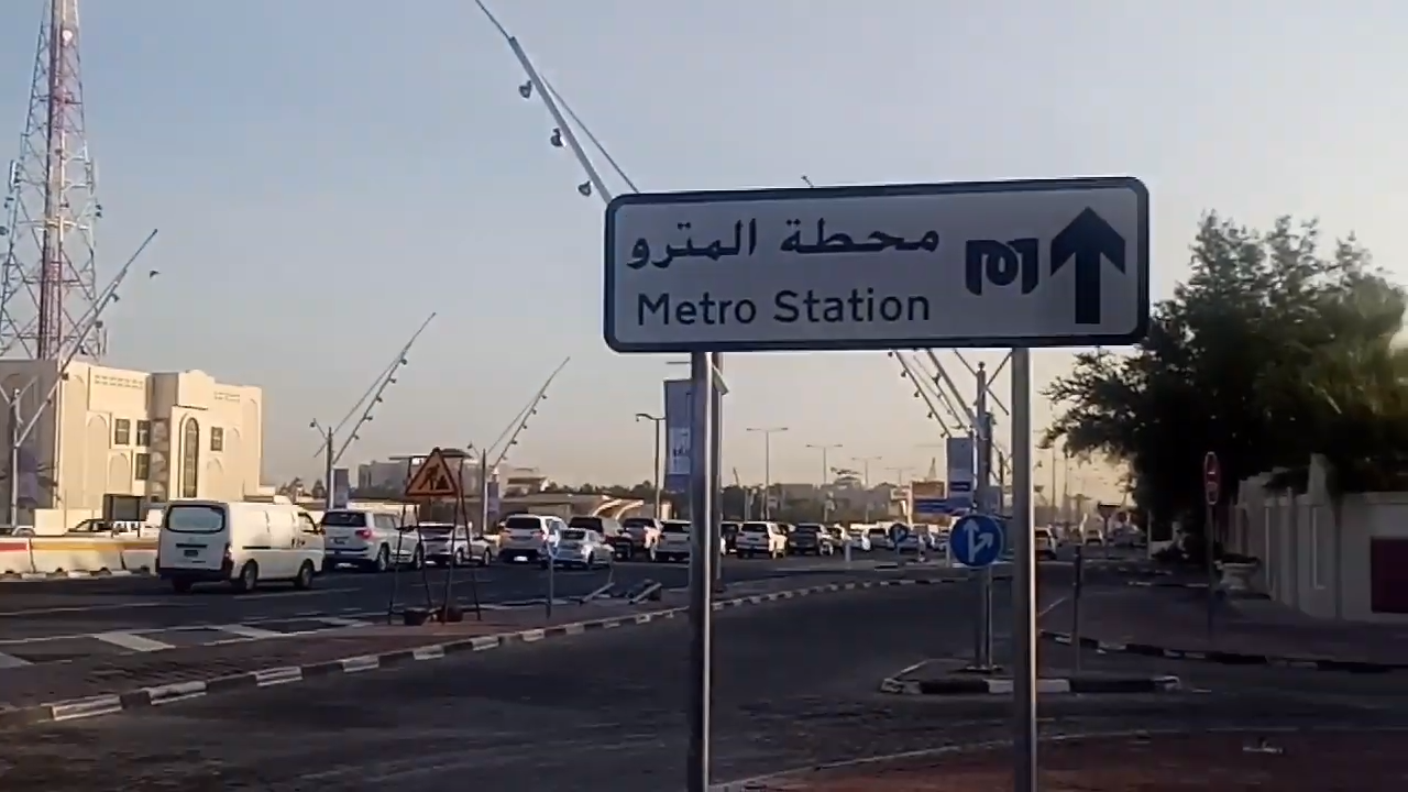 Sign indicating Al Waab metro station, part of the Doha Metro's Gold Line.